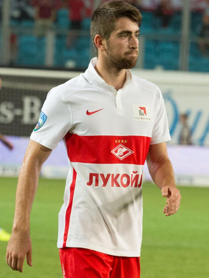 Shamsiddin Shanbiyev playing for FC Spartak-2 Moscow against FC Dynamo Moscow.